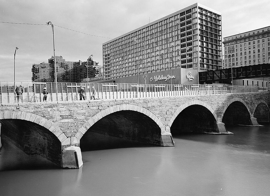 Main Street Bridge, Main Street East — spanning the Genesee River, in Rochester (Monroe County, New York) cropped This image or media file contains material based on a work of a National Park Service employee, created as part of that person's official duties. As a work of the U.S. federal government, such work is in the public domain in the United States. See the NPS website and NPS copyright policy for more information. Creator: U.S. Department of the Interior, National Park Service, Historic American Engineering Record. Survey number HAER NY,28-ROCH,43-8 Source: U.S. Library of Congress, Prints and Photographs Division, "Built in America" Collection. Copyright: "The original measured drawings and most of the photographs and data pages in HABS/HAER/HALS were created for the U.S. Government and are considered to be in the public domain." Object location43° 09′ 22″ N, 77° 36′ 39″ W